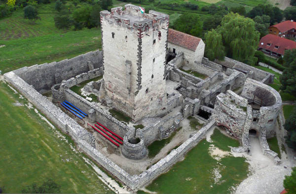 Nagyvázsony, Castle, Hungary, aerial photography